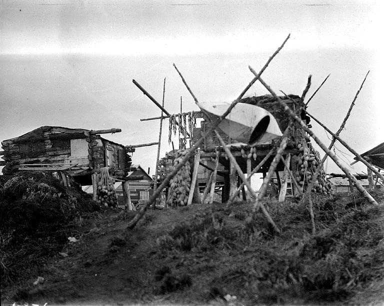 From John Cobb field notebook: Native houses at Igegak . Shows bidarka, or skin covered boat, on rack to the right. Subjects (LCTGM): Eskimos--Structures; Houses--Alaska--Egegik Subjects (LCSH): Dwellings--Alaska--Egegik; Bidarkas--Alaska--Egegik; Eskimos--Transportation